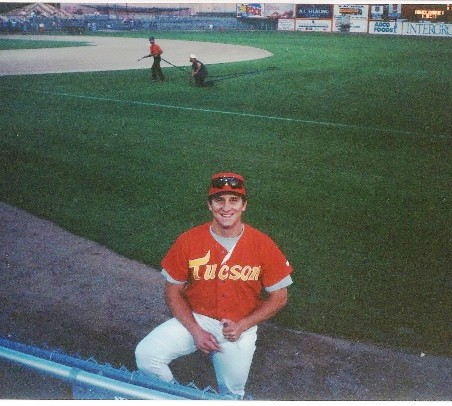 A Tucson Toros pitcher, probably Dave Veres, at Hi Corbett circa 1994.